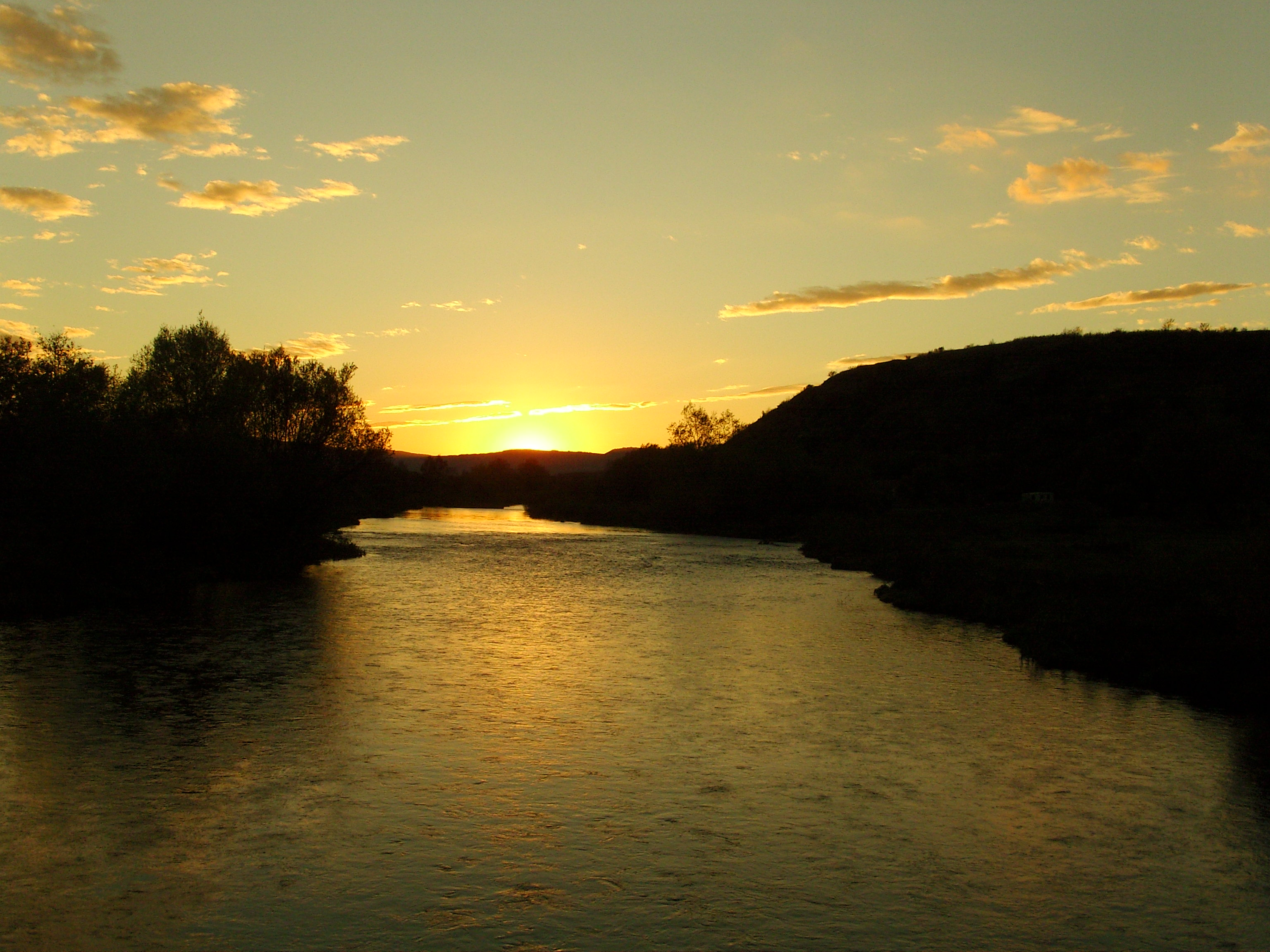 A picture from village Rositsa, Veliko Tarnovo District, Bulgaria